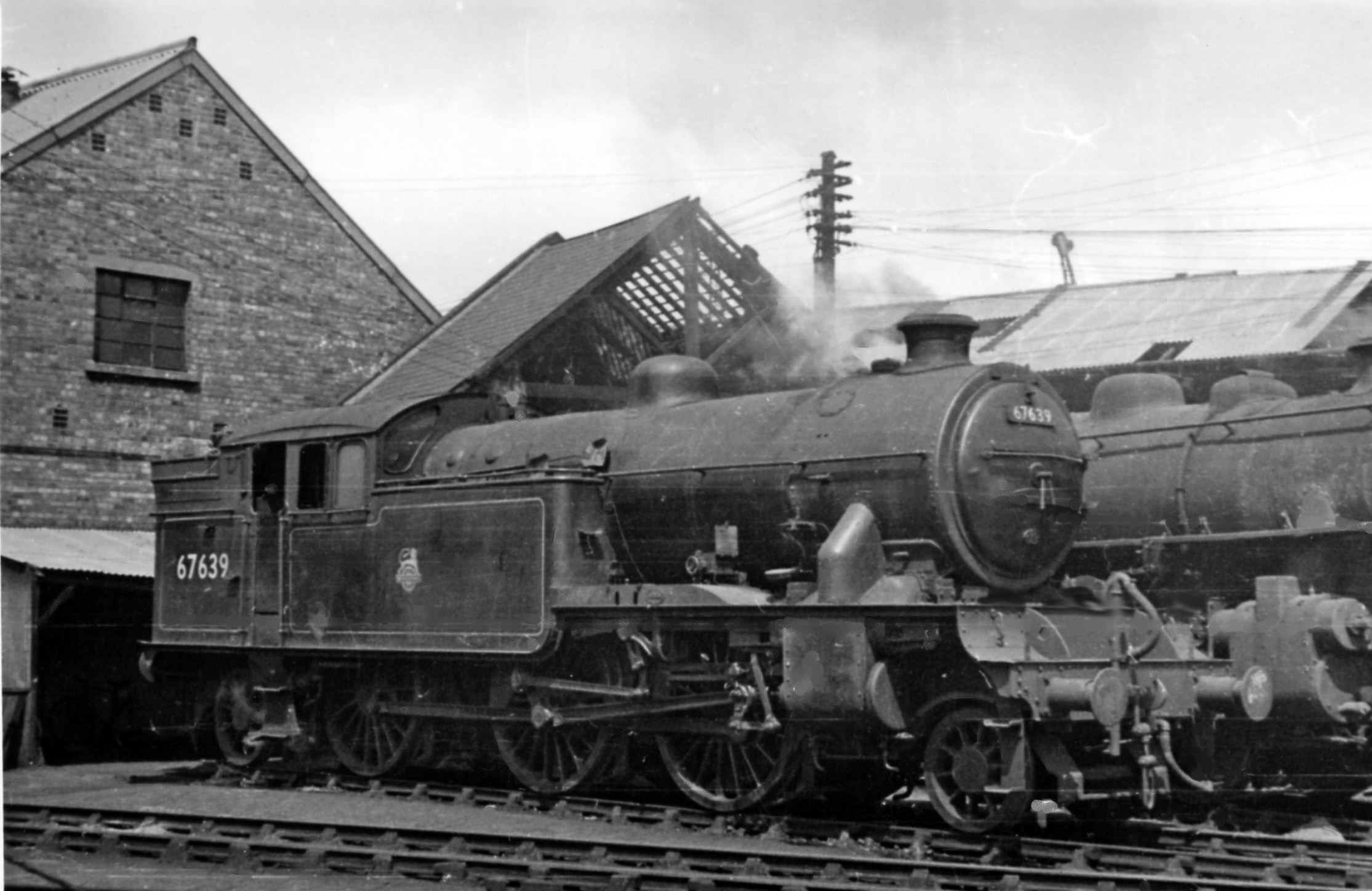 LNER Gresley V1 2-6-2T at Middlesbrough Locomotive Depot. No. 67639 is one of the efficient 2-6-2T's that normally worked the passenger services between Newcastle, Sunderland, Stockton, Middlesbrough and Saltburn.